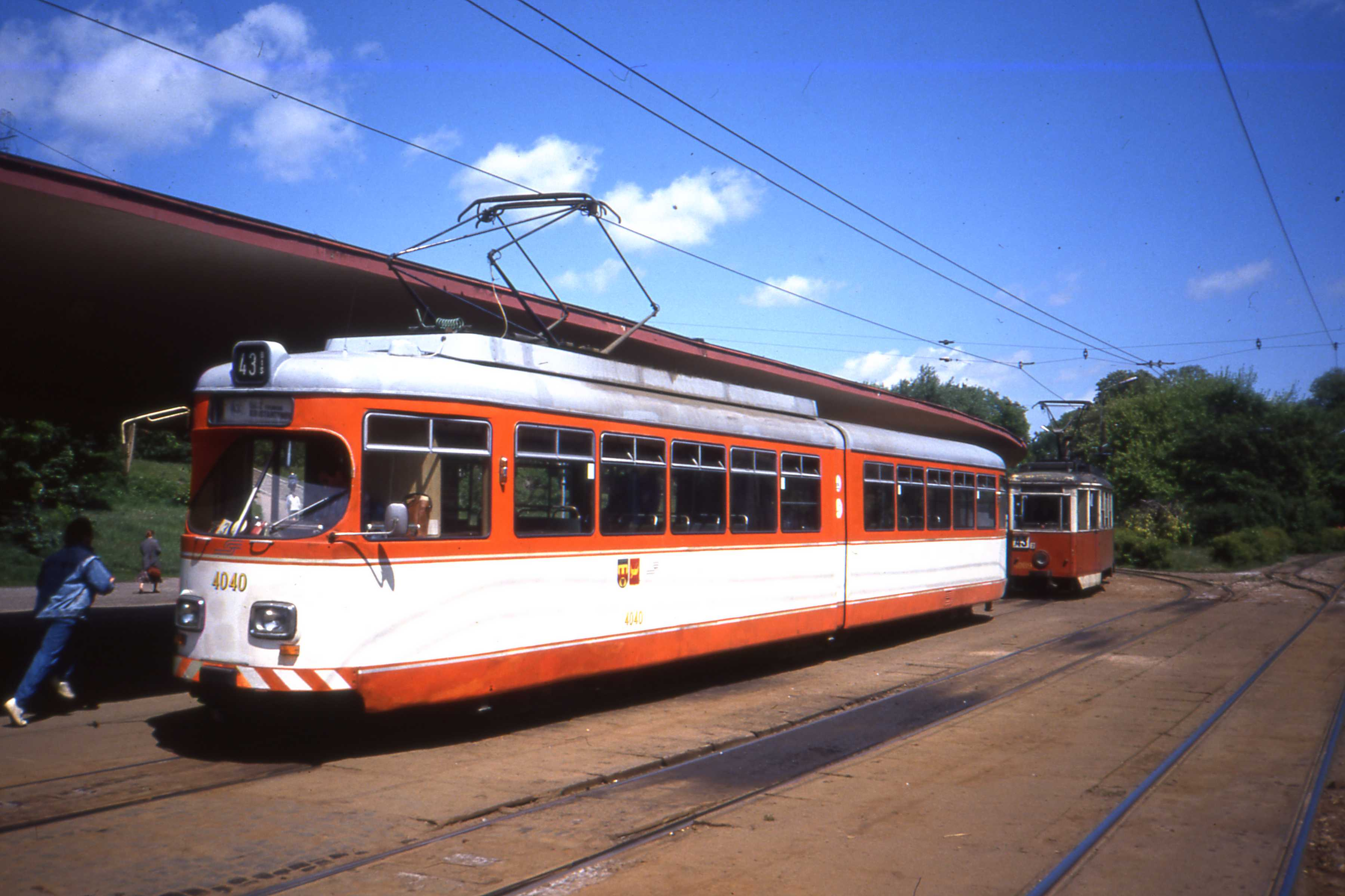 DÜWAG GT6 tram no. 4040, acquired from Bielefeld in West Germany on route 43 Bis, with Konstal N tram no. 4089 and trailer on the 43. It seems that 7 of these ex-Bielefeld Duewag GT6 trams arrived, 4040-4047 in 1990-1 and dates of service are listed here with details of no 4040 here